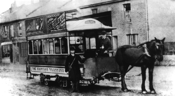 Horse tram outside the Red Deer, Brighton Road, South Croydon